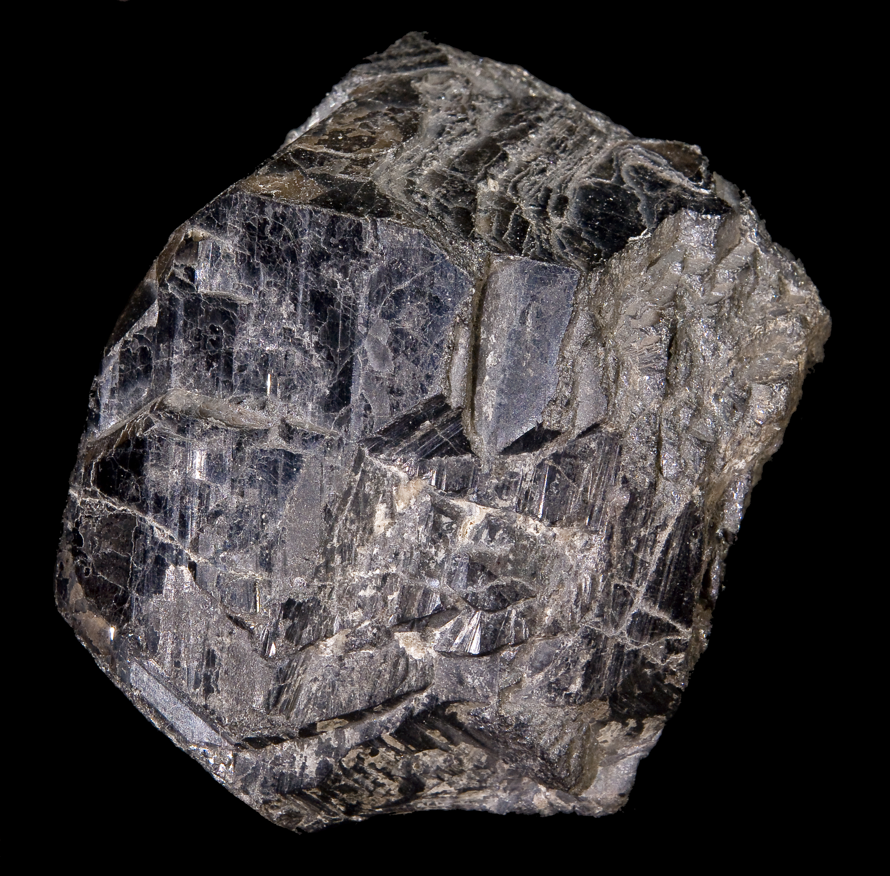 Ferberite Locality :Cínovec / Zinnwald (Cinvald), Erzgebirge; Krusné Hory Mts, Saxony & Ústí Region (Bohemia), Germany & Czech Republic Size : 5.3x3.8cm